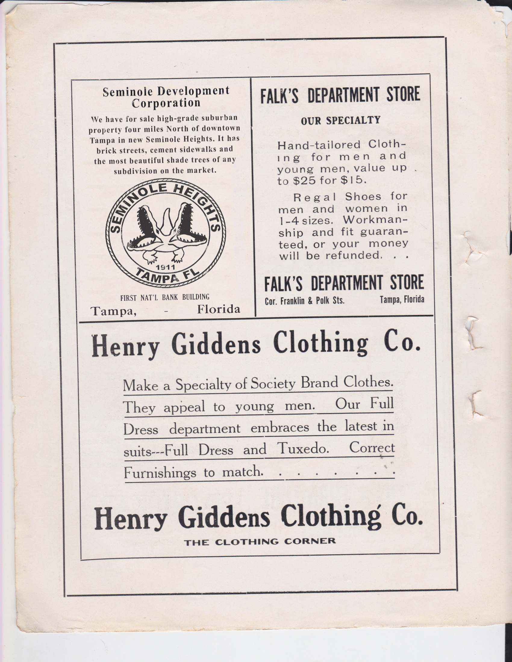 An original advertisement for Seminole Heights with Justin Arnold's seal added to it.